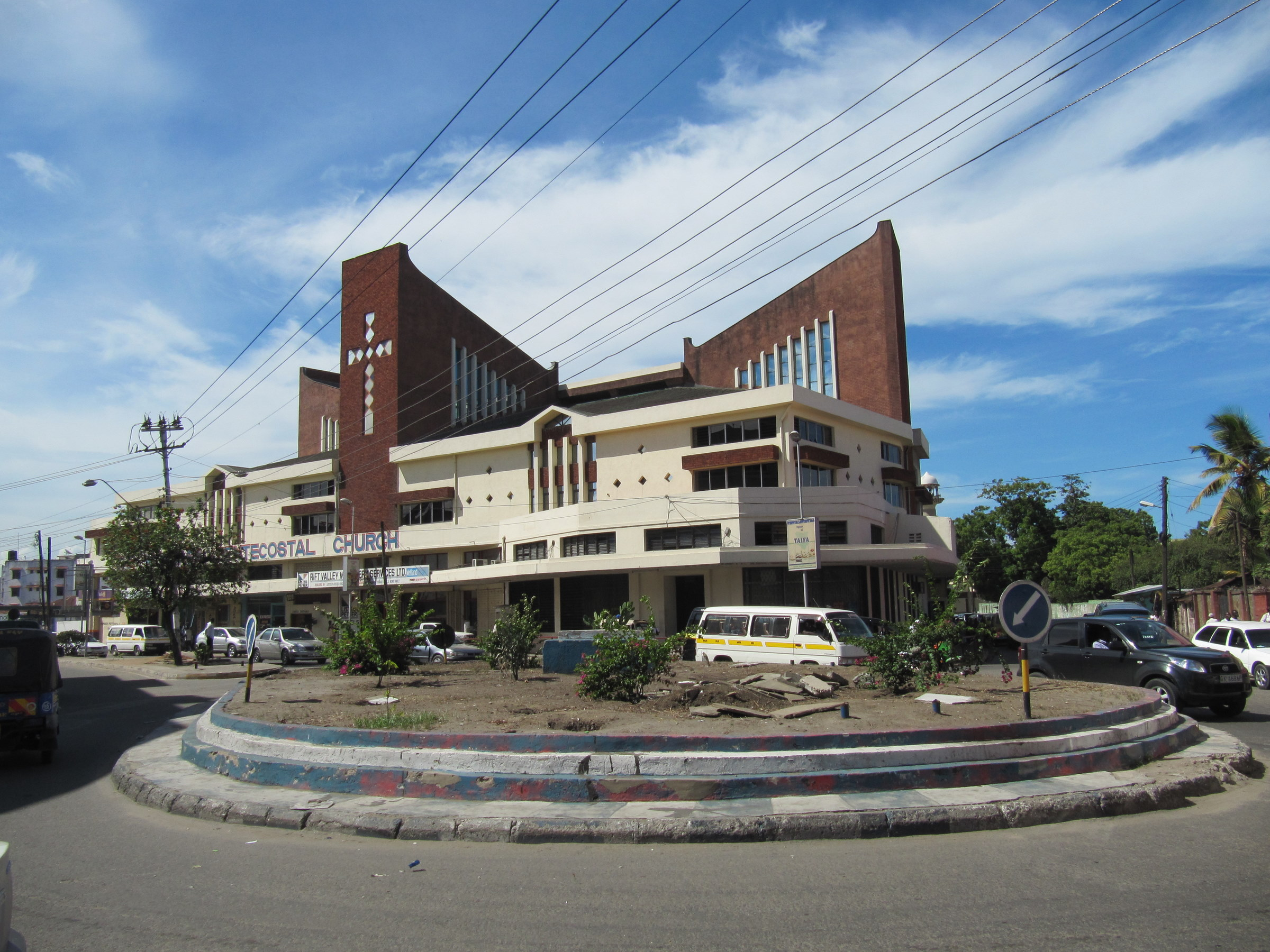 Pentecostal church in Mombasa, Kenya